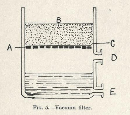 Vacuum filter drawing